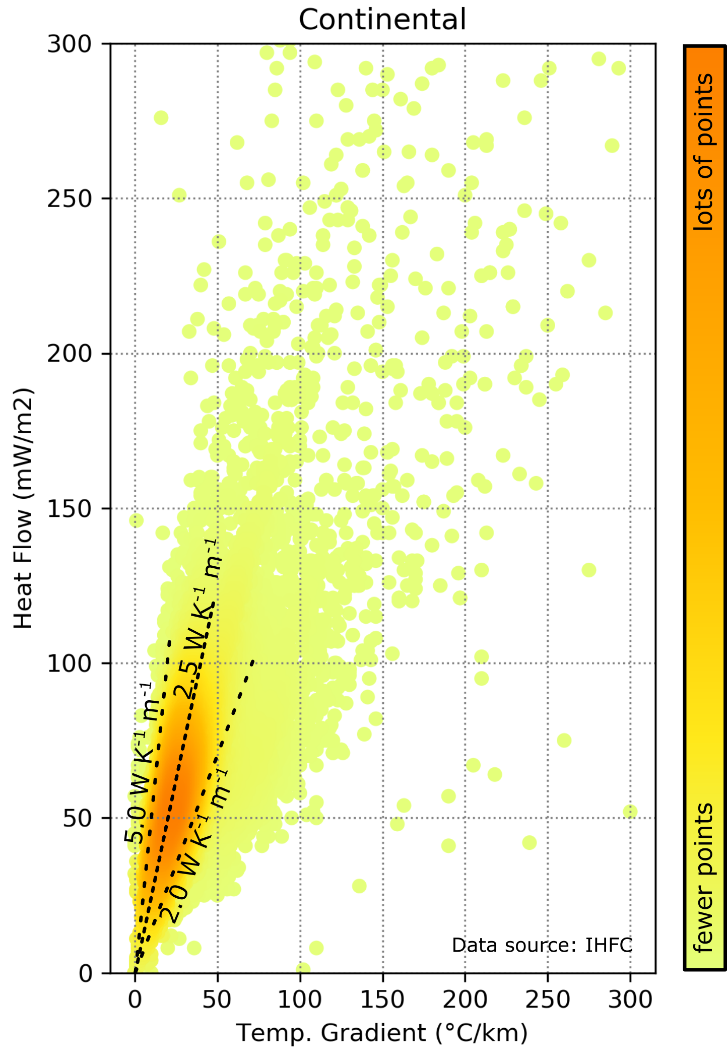 Scatter plot of temperature gradient vs heat flow for continental data from the IHFC database.